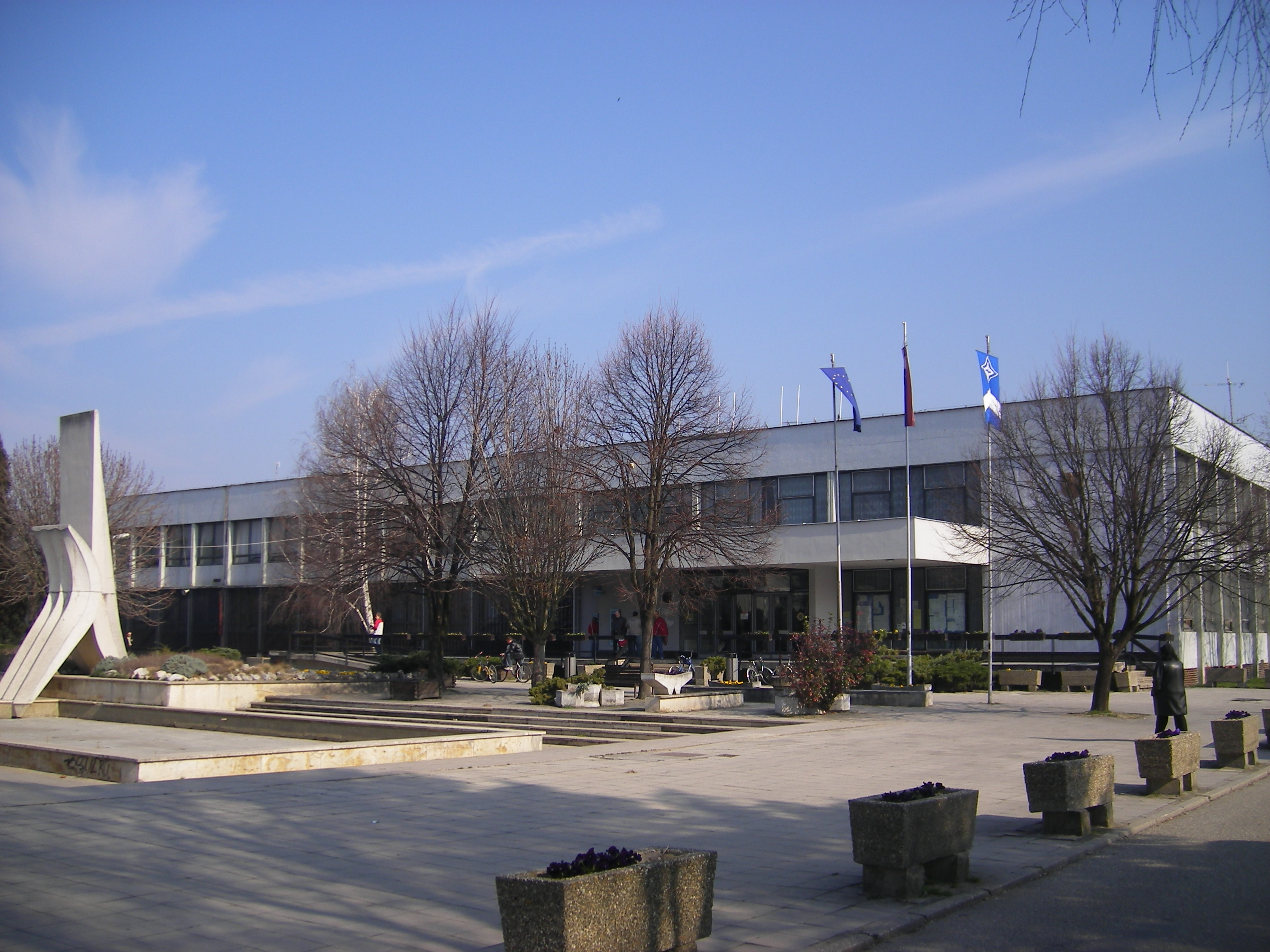 Kolárovo, municipal administration building